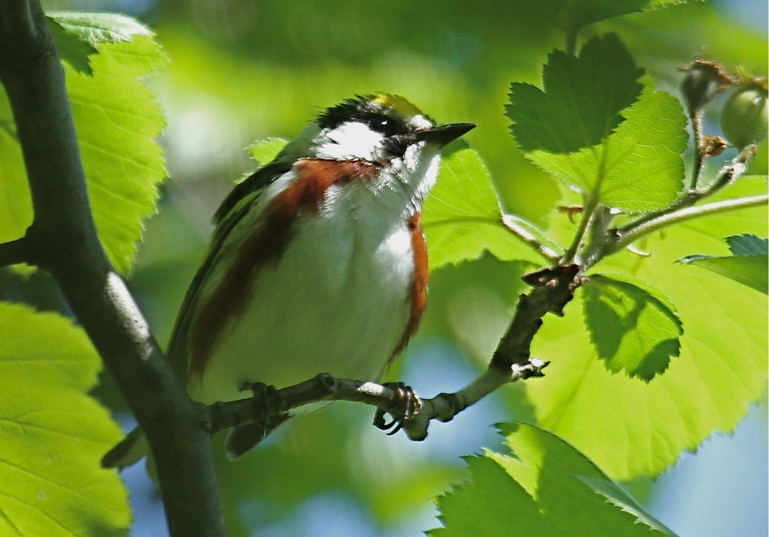 Breeding male - Columbus Park, Chicago